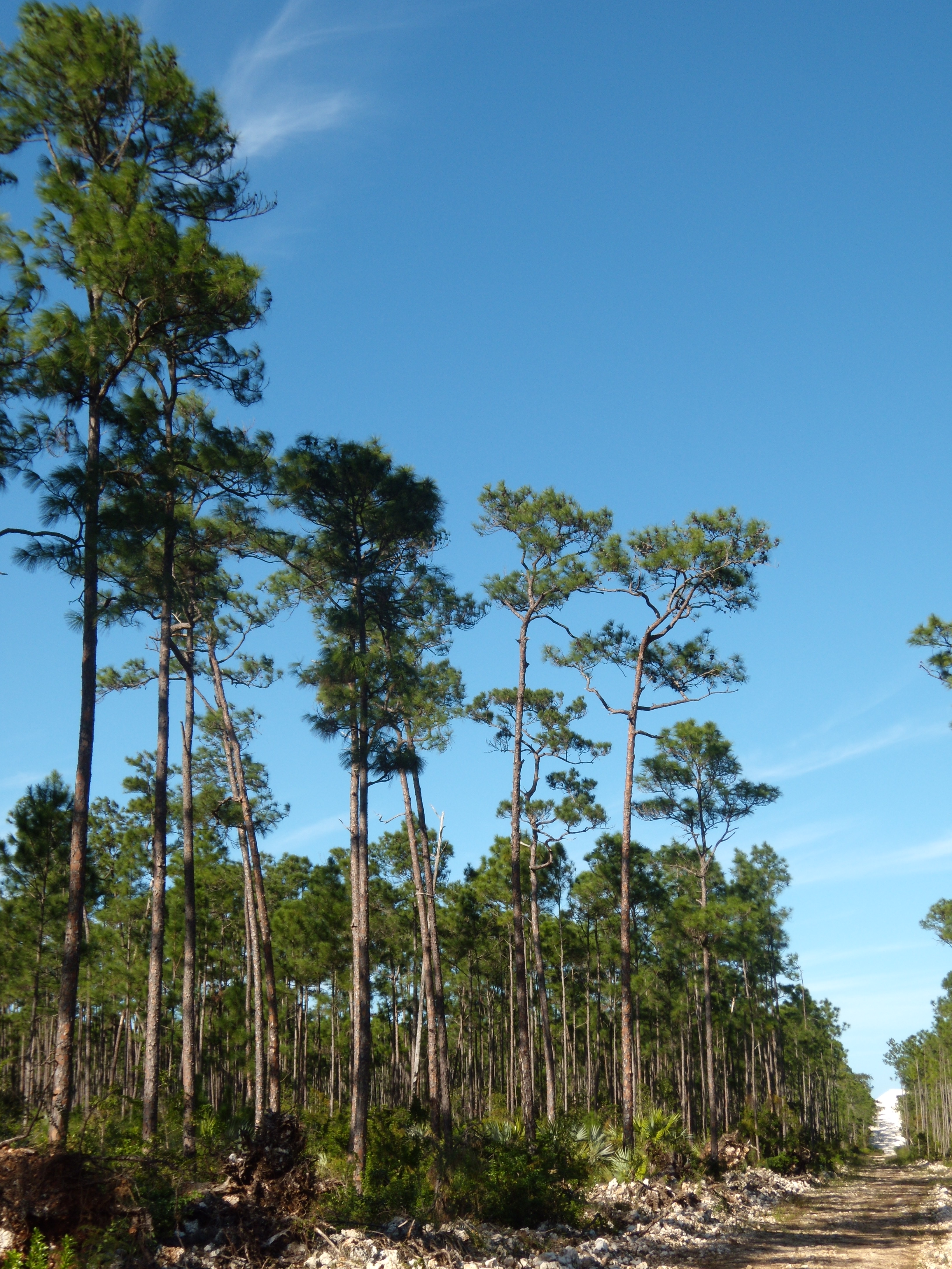 Pinus caribaea var. bahamensis forest, in the interior part of South Andros Island, Bahamas